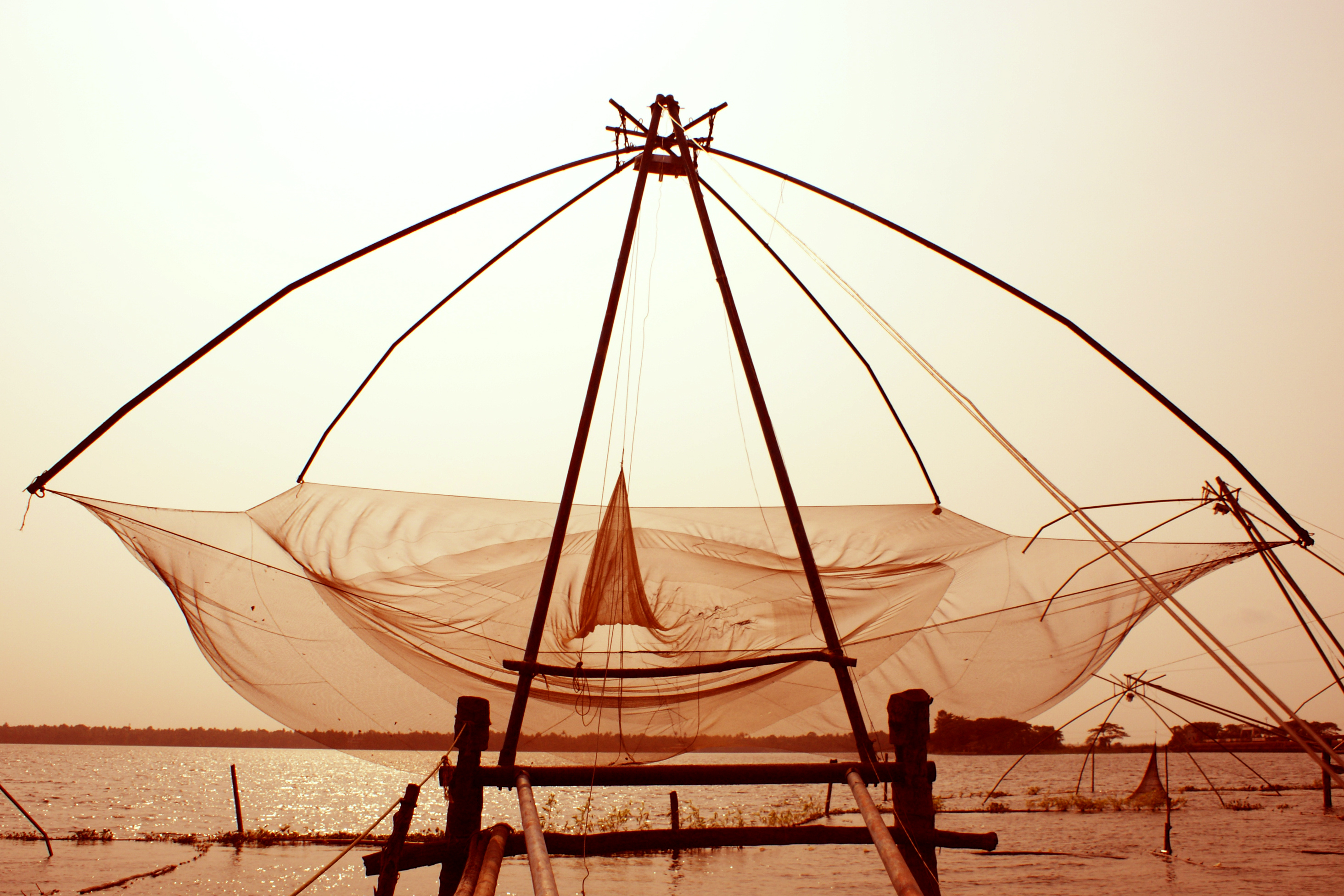 Raised chinese fishing nets.